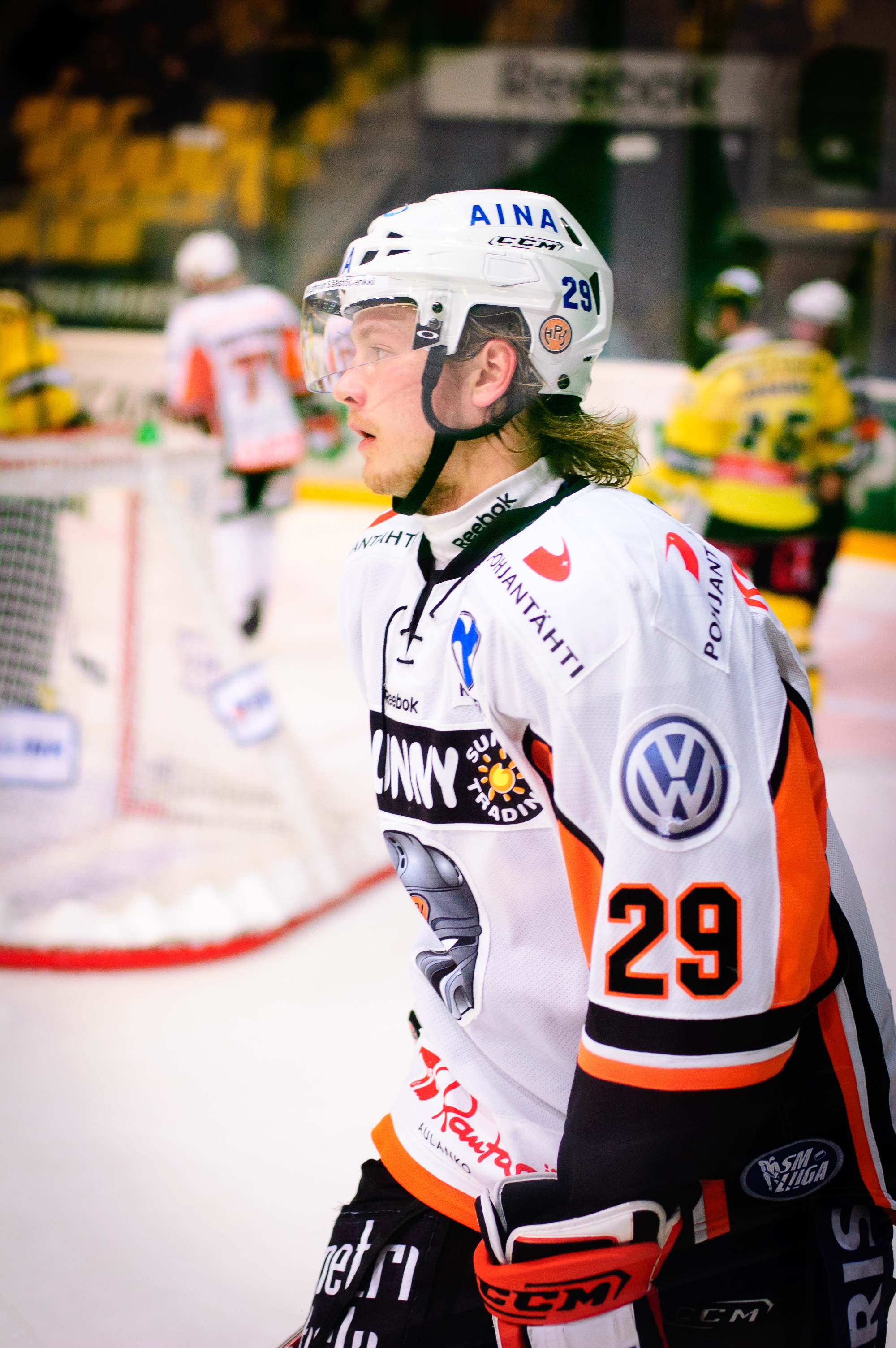 Finnish ice hockey player Jaakko Turtiainen playing for HPK Hämeenlinna against SaiPa Lappeenranta in the Finnish SM-liiga. In this game Turtiainen scored his first goal in SM-liiga, into empty net at the end of the game.